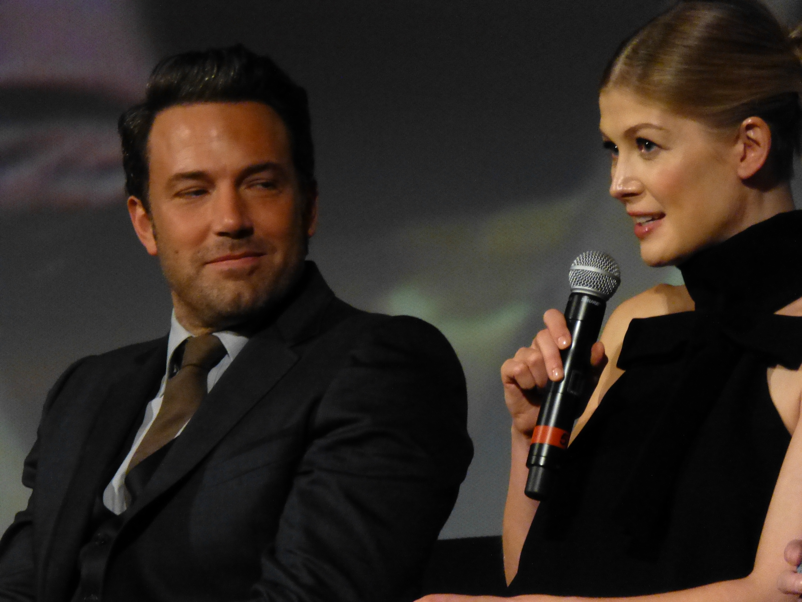 Gone Girl Premiere at the 52nd New York Film Festival, October 2014.